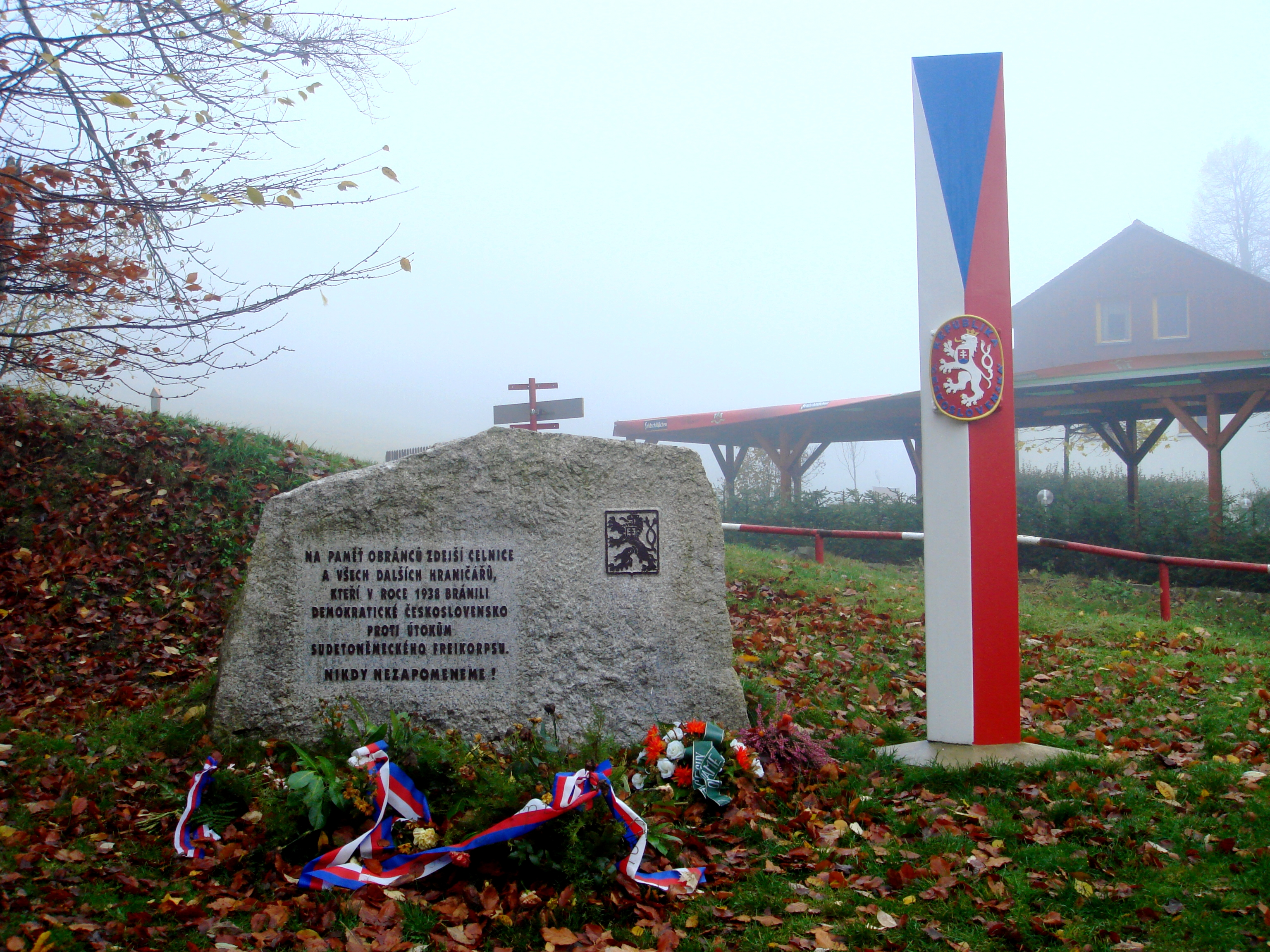 Monument commemorating defenders of the Czechoslovak borders in 1938 (Liberec Region, Czech Republic).